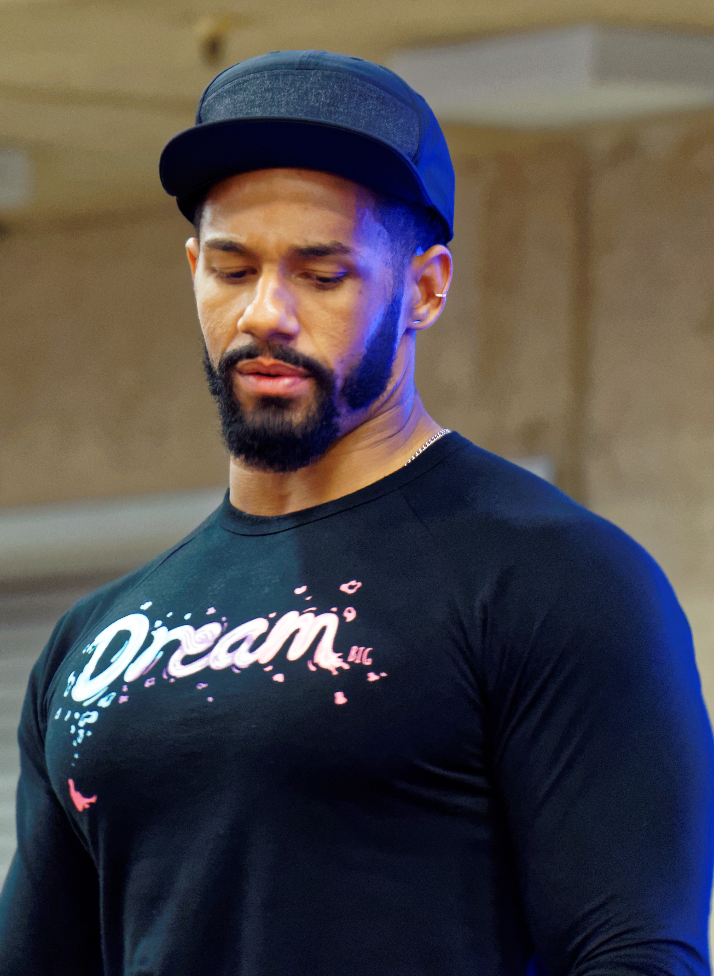 Darren Young at WrestleMania 32 Axxess in April 2016.